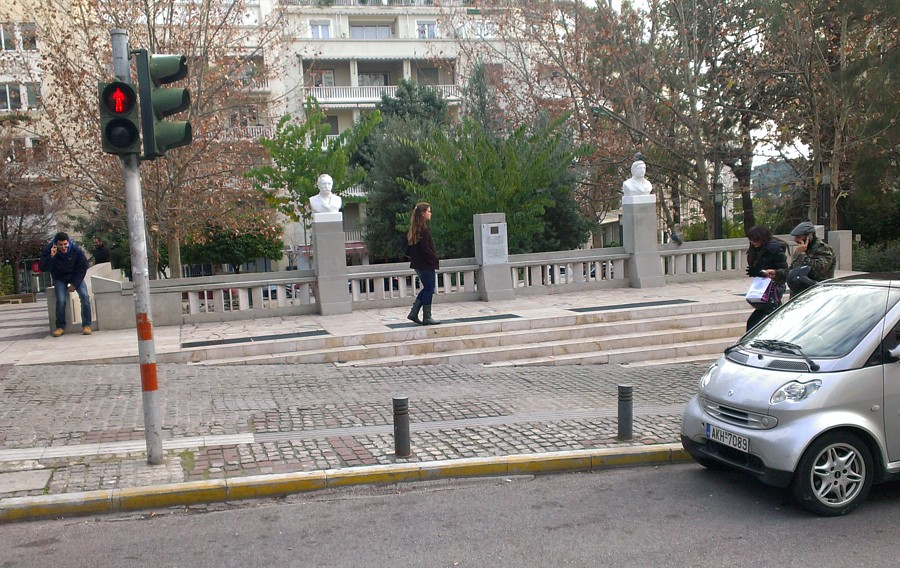 kolonaki square